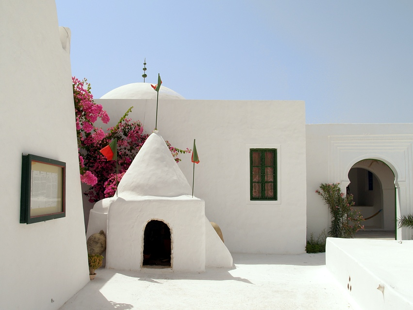 Guellala Museum